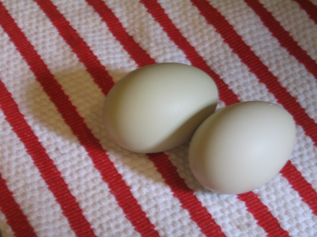 Some organic green eggs from a flock of backyard Ameraucana hens.